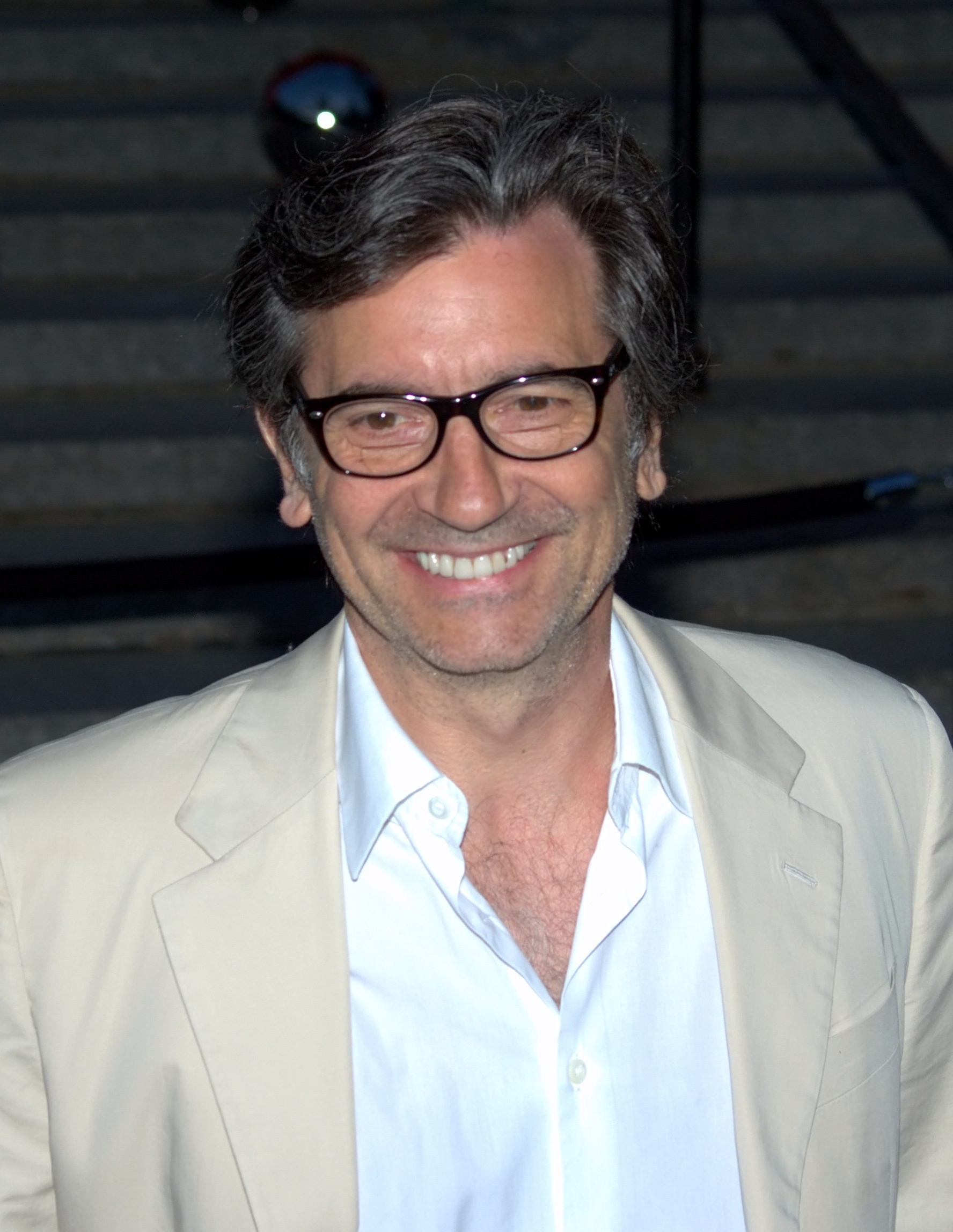 Griffin Dunne at Tribeca Film Festival 2010